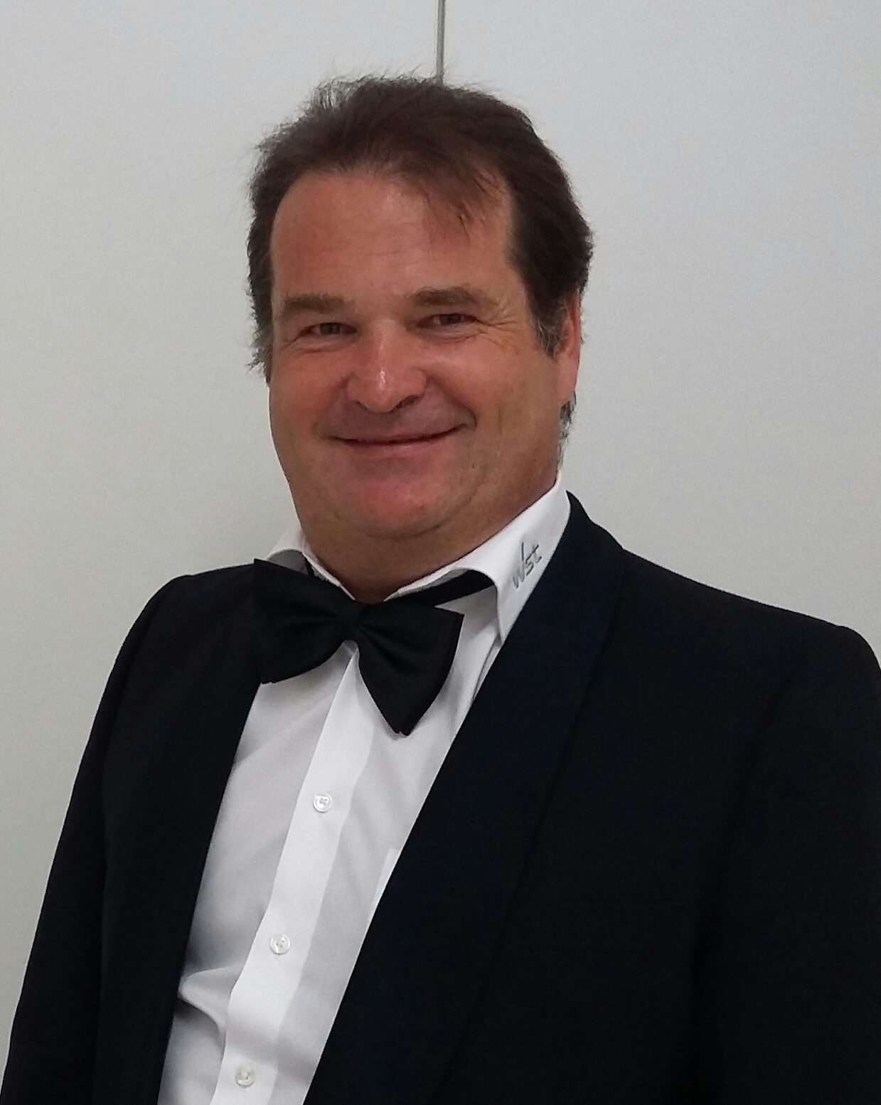 Gottfried Hummel